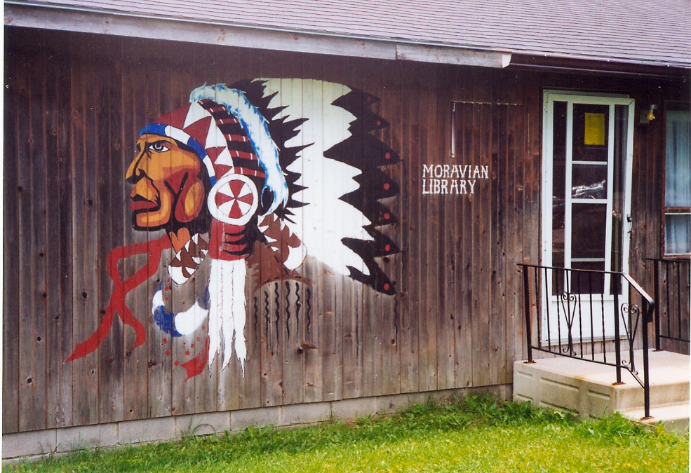 Administration and library of Moravian No. 47 Indian reserve, Ontario, Canada